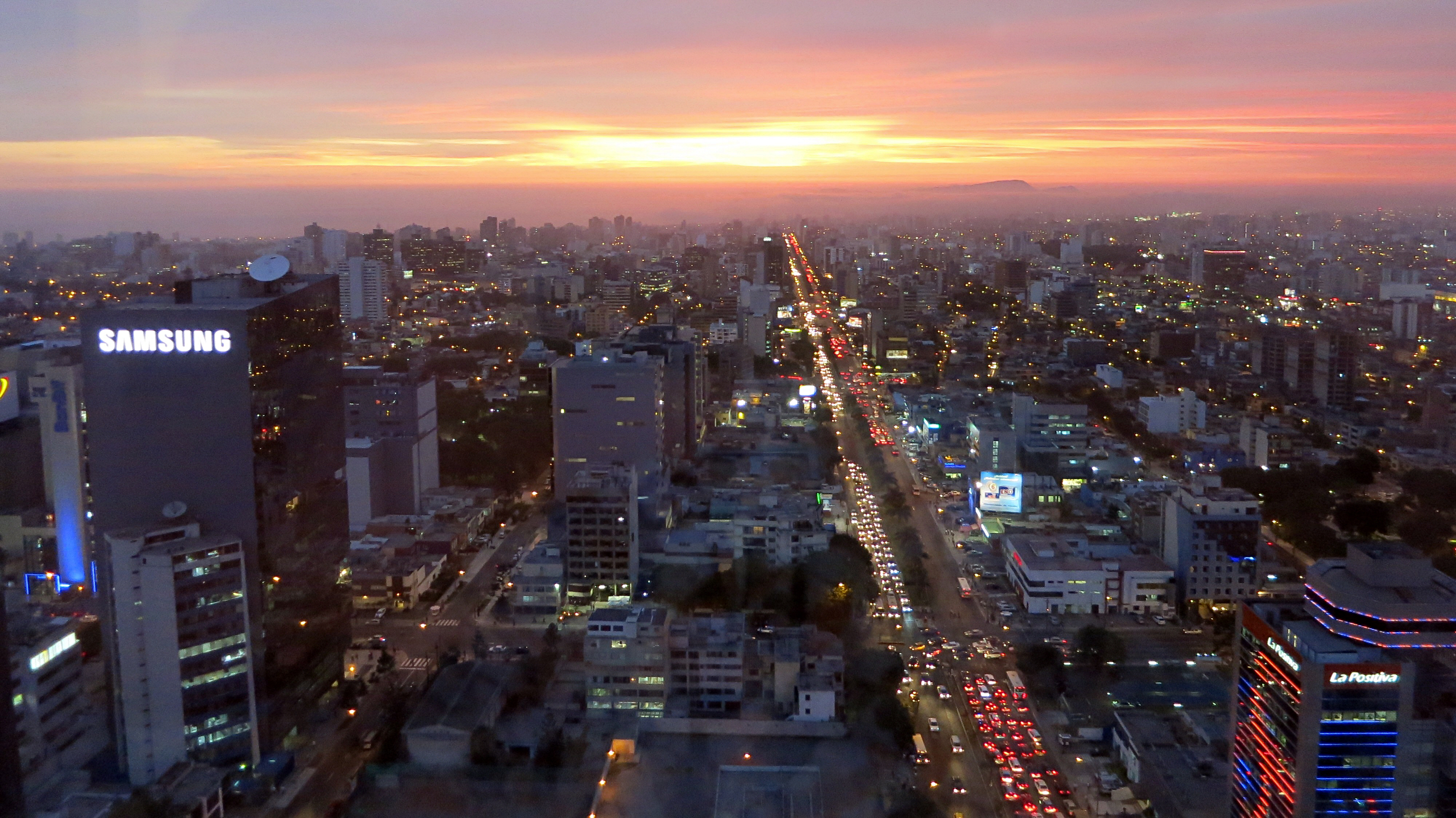 Lima, Peru's sunset skyline cityscape panorama.